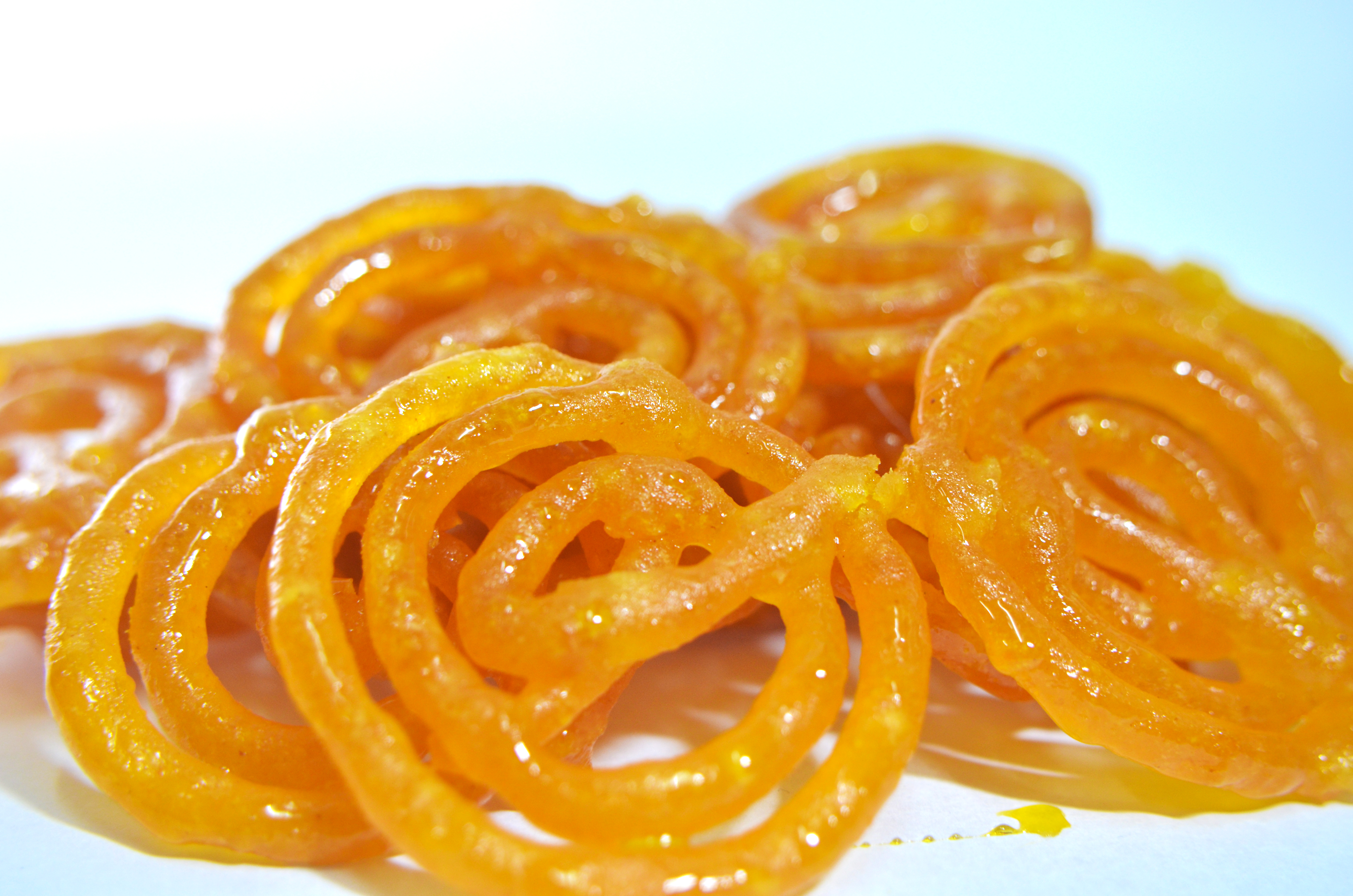 This picture shows a close up view of Jalebis with all minute details in focus. Jalebi is a sweet dish and is a hot favourite on any special occasion be it a Birthday, Wedding or Festival in India. It is cooked by deep frying Wheat Flour (Maida) batter in circular random shapes and later dipped in sugar syrup solution before serving.